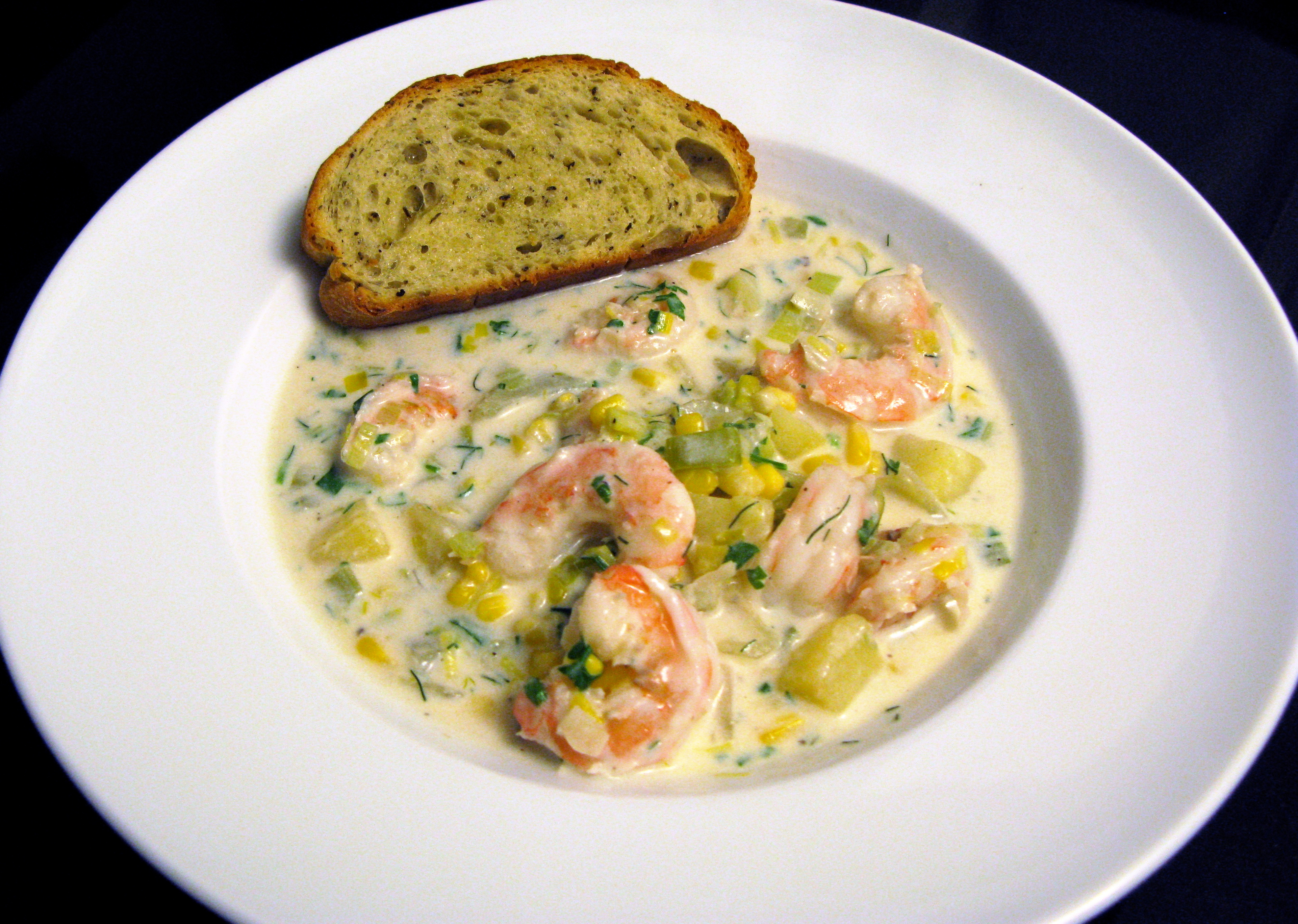 Tara made a chowder with special seasonal Maine shrimp (not cold enough in Maine after February?) and lots of fennel (bulb, leaves, the works). And olive-oil-toasted par baked rosemary ciabatta, how nice is that?